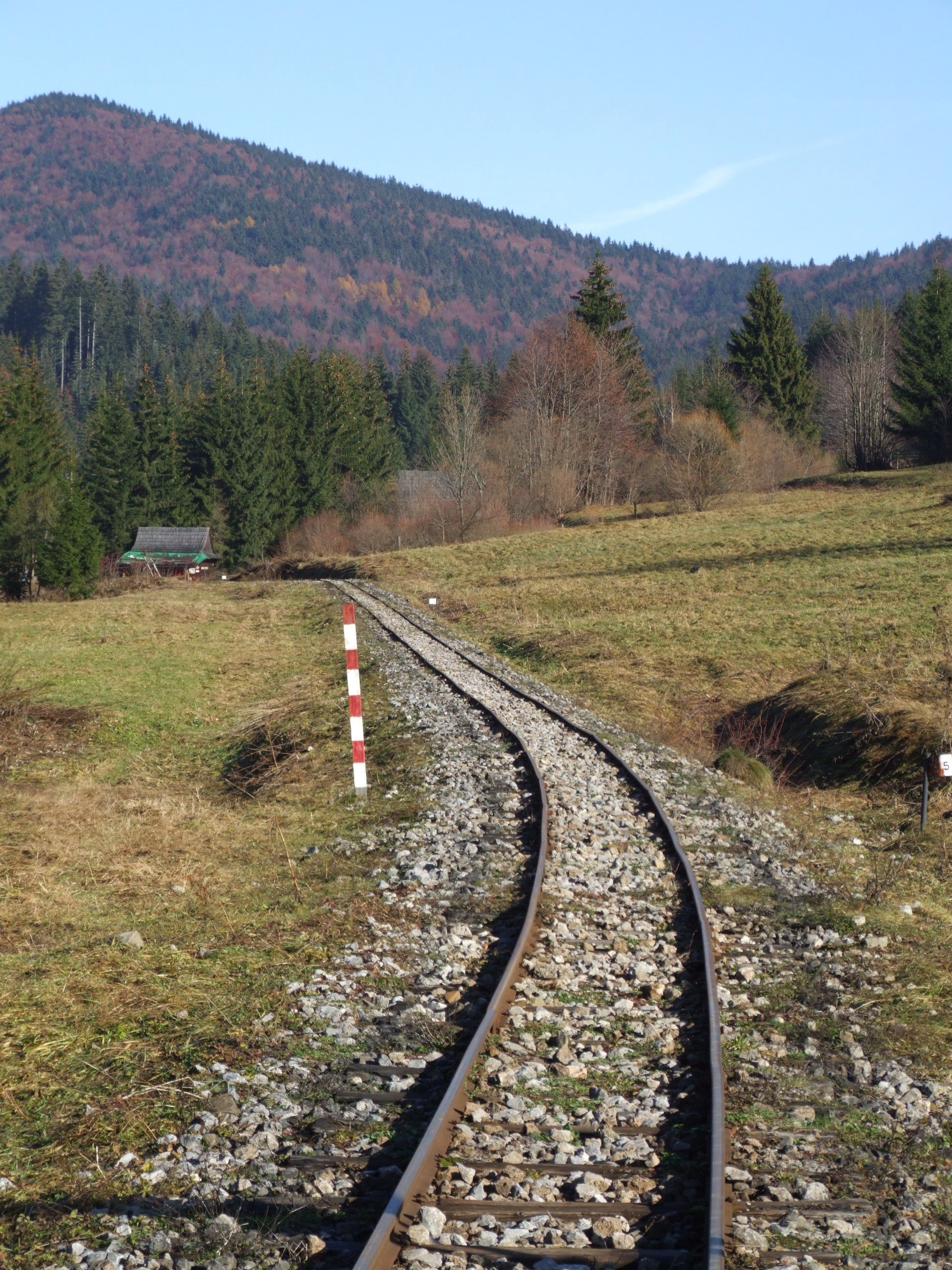 Historical Logging Back Swath Railway in Vychylovka, Slovakia. Track